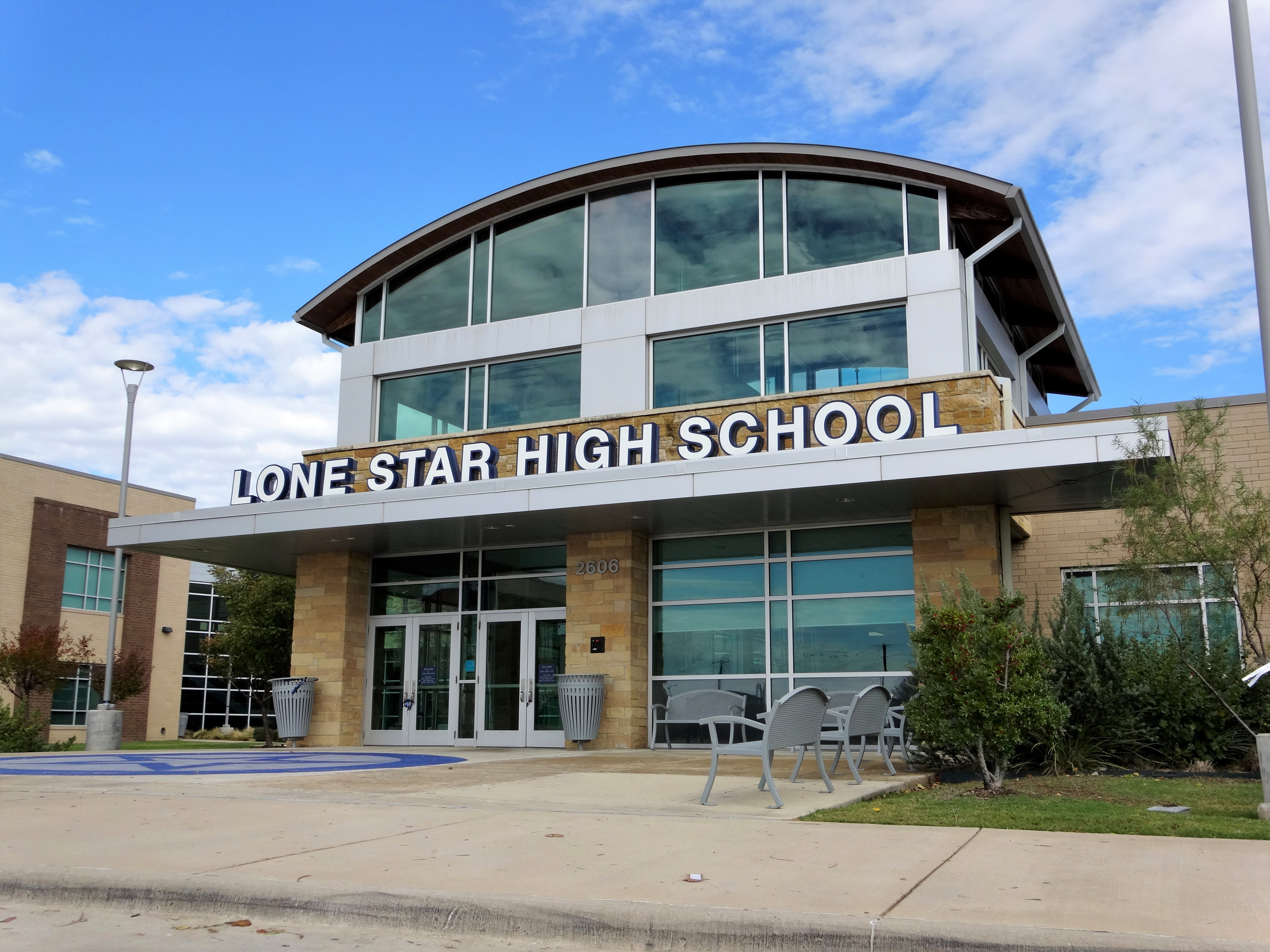 Lone Star High School is a public high school located in the city of Frisco, Texas. The school opened in 2009 as an annex of students from Wakeland High School.